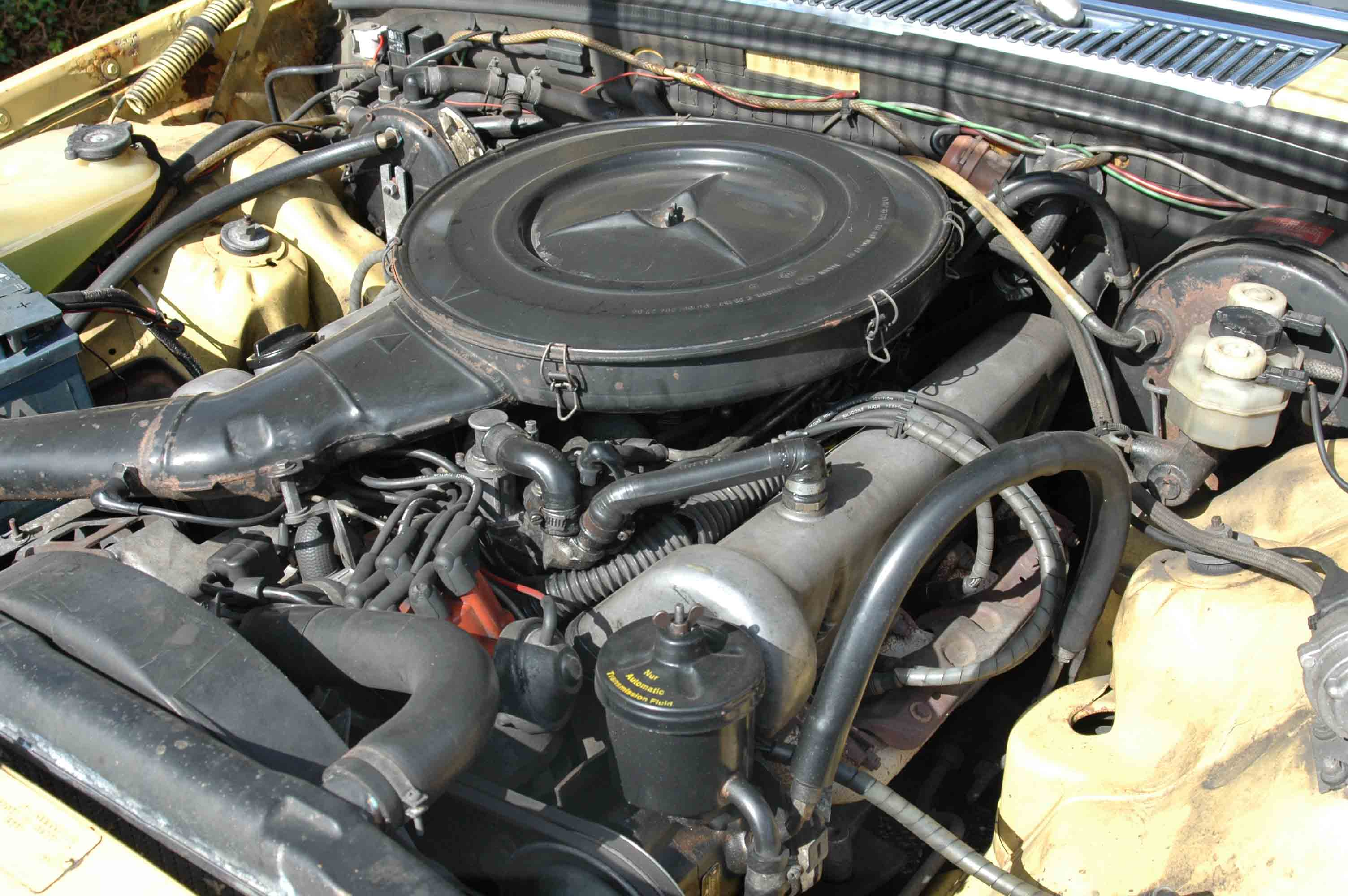 Mercedes-Benz W116 1975 350SE V8 Engine M116